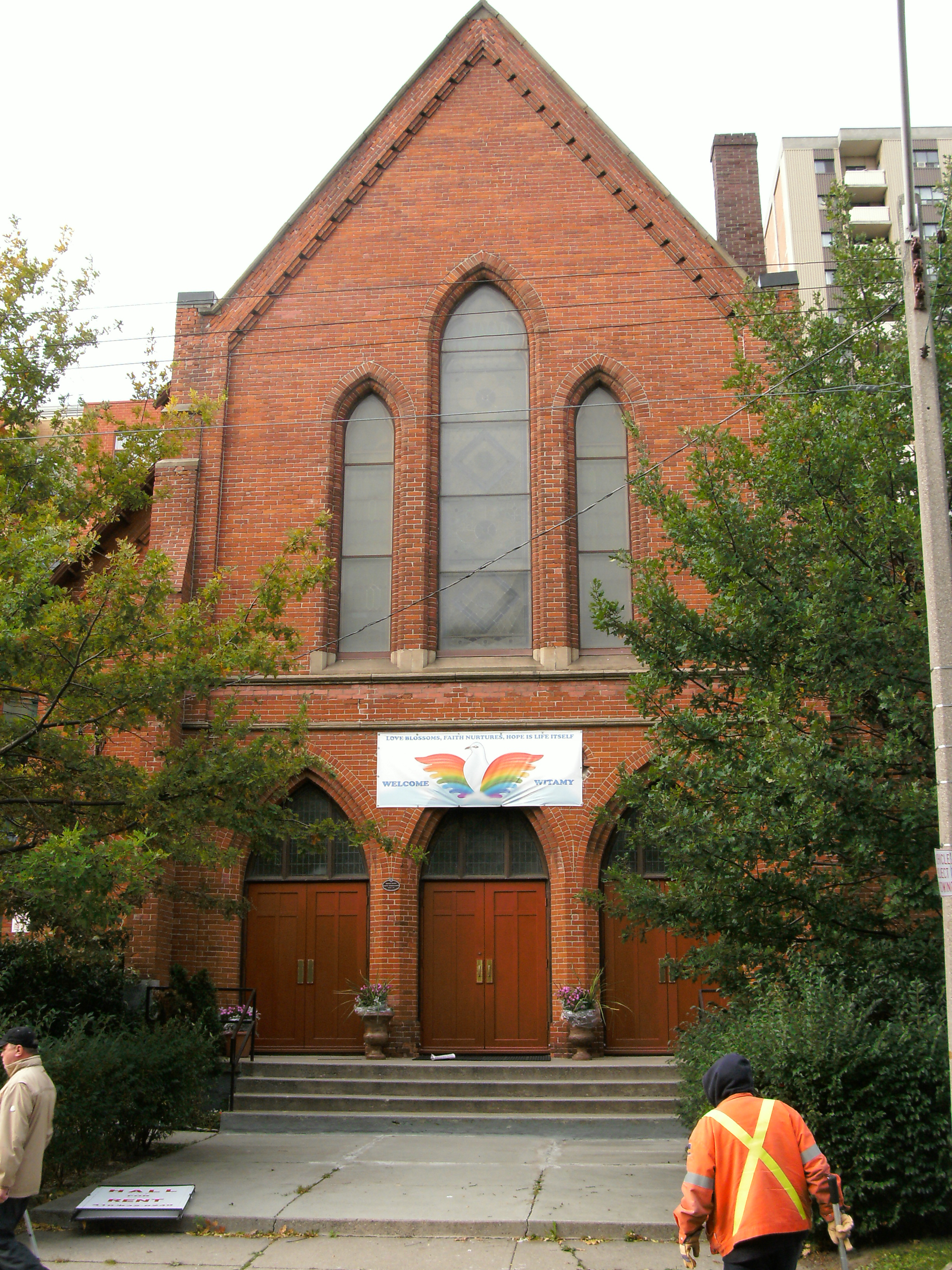 St. John's Cathedral, 186 Cowan Avenue, Toronto, Ontario, Canada, also known as St. John's Polish National Catholic Cathedral